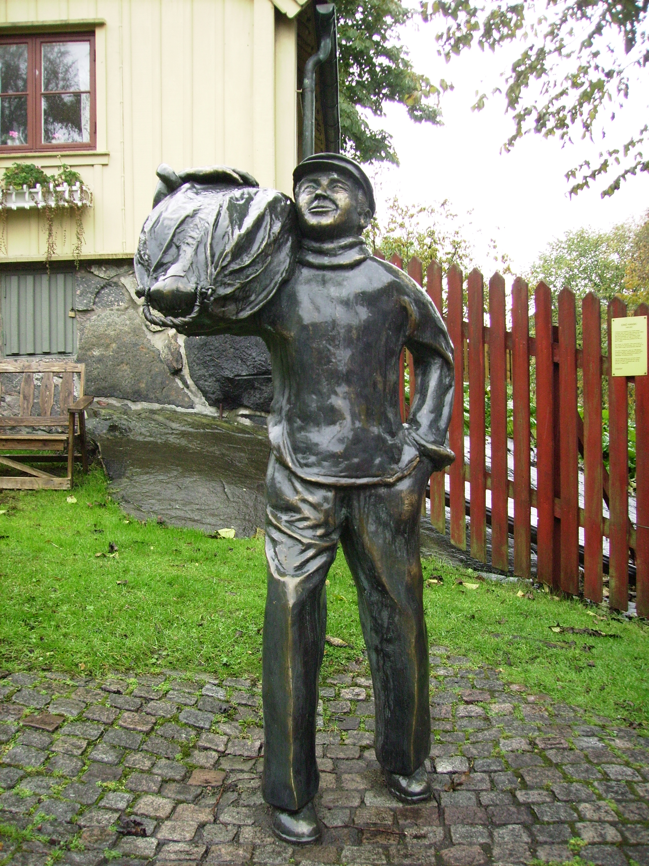 Picture of statue of a sailor made by Eino Hanski in Göteborg